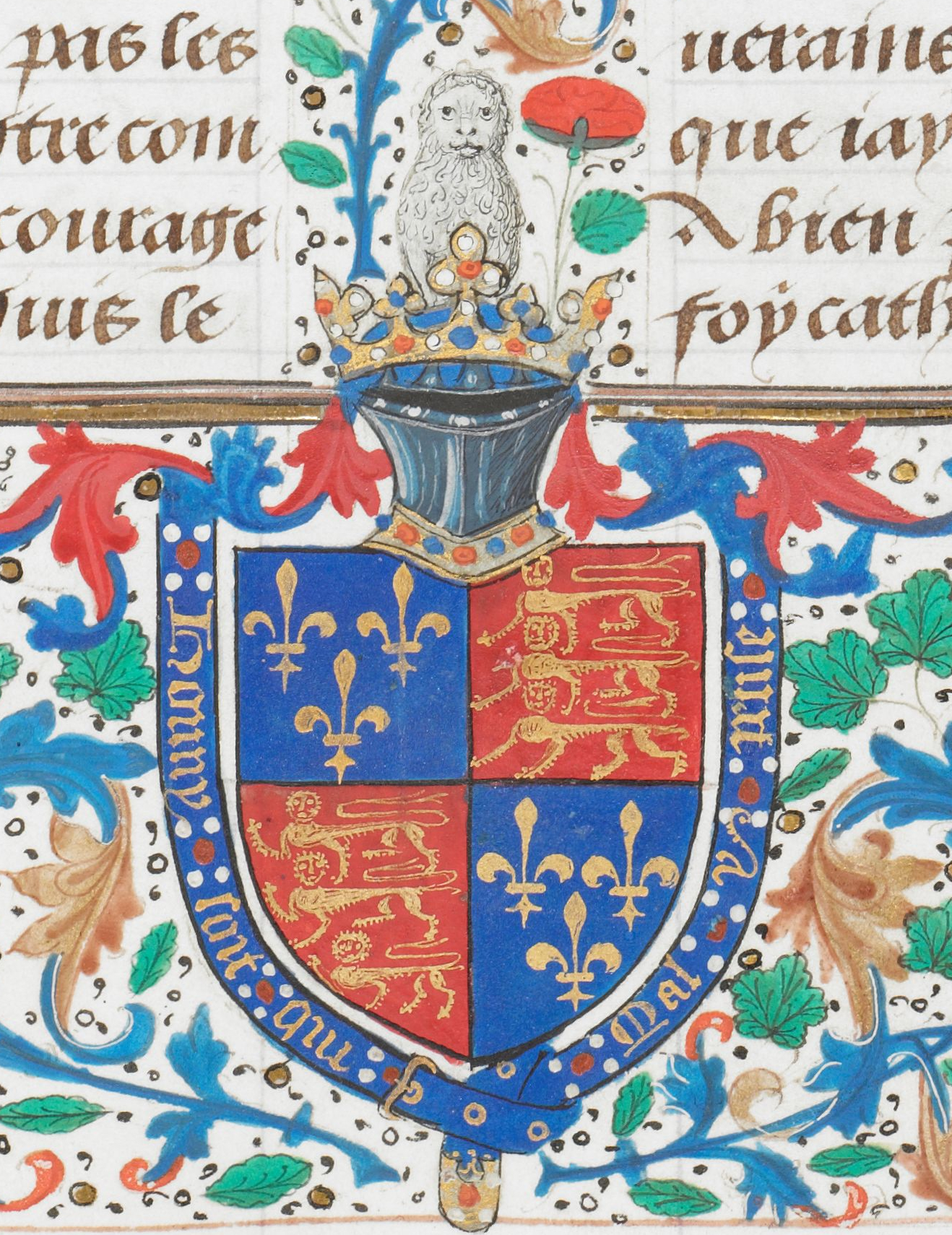 Arms of Edward IV, from one of his manuscripts. A detail from File:BL Royal Vincent of Beauvais.jpg, Miroir historial, vol. 1 Vincent of Beauvais, Speculum historiale, trans. into French by Jean de Vignay), Bruges, c. 1478-1480, Royal 14 E. i, vol. 1, f. 3r